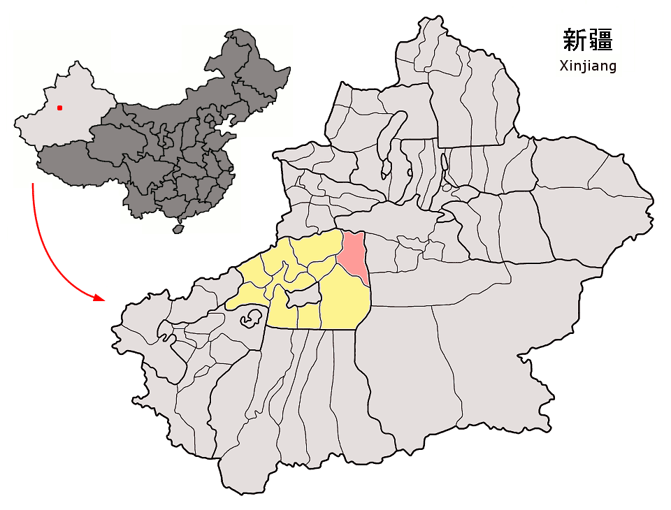 Location of Kuchar County (pink) and Aksu Prefecture (yellow) within Xinjiang autonomous region of China Map drawn in september 2007 using various sources, mainly : Xinjiang Uygur autonomous region administrative regions GIS data: 1:1M, County level, 1990 Xinjiang Counties map from